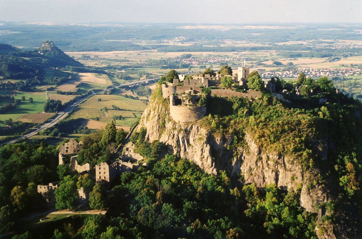 Fortress ruins of the Hohentwiel, taken from an airplane.